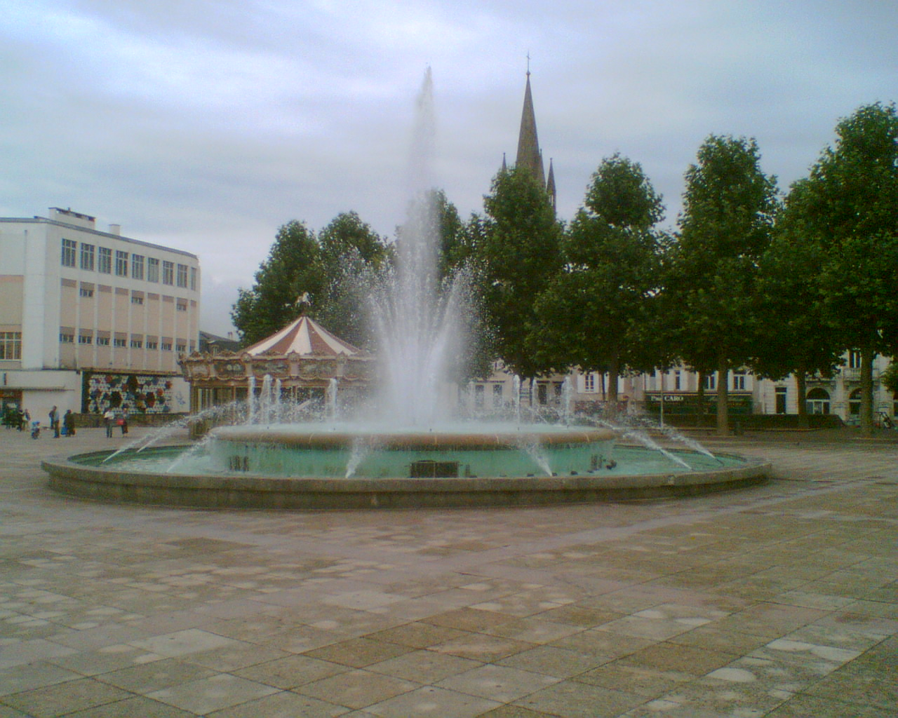 Fountain Limoges, Limousin, France